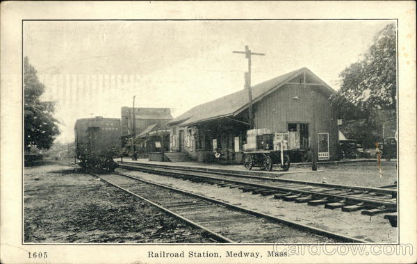 Early divided back postcard of Medway station